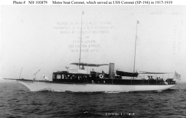 Motorboat Coronet, which later served as the United States Navy patrol boat USS Coronet (SP-194)